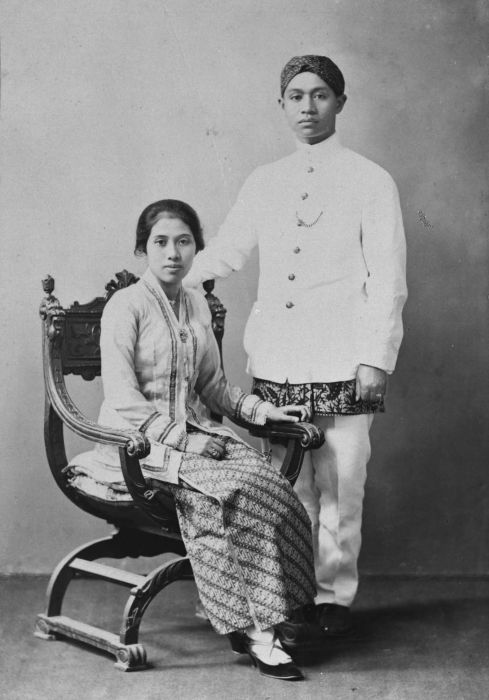 Portrait of Moeharam Wiranata Koesoema and his wife, Mien Nawawi